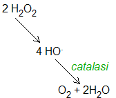 Catalase reaction